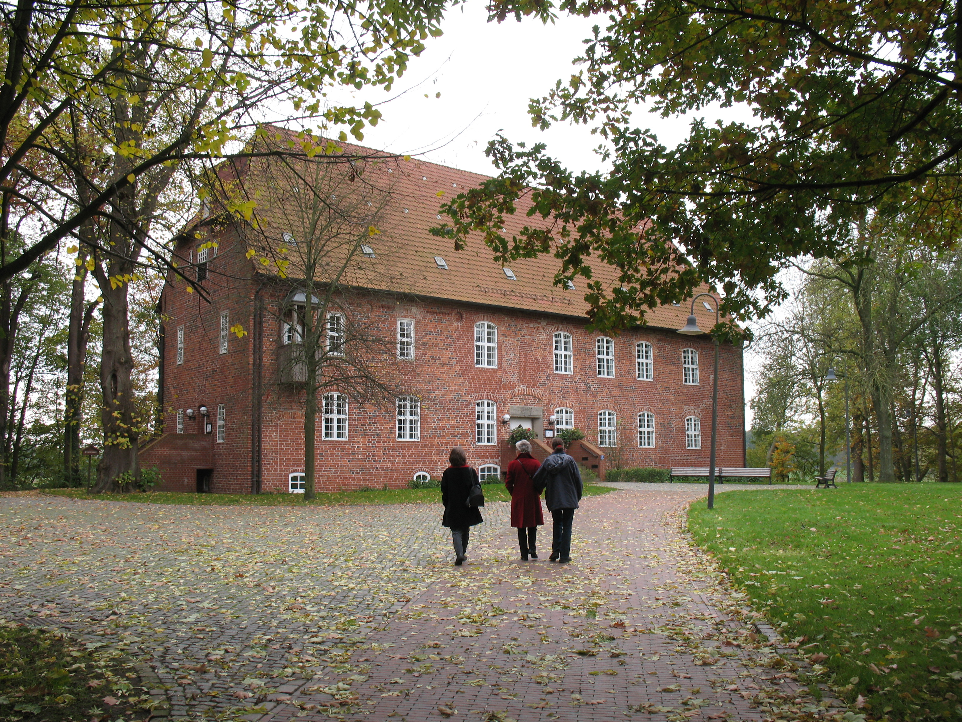 view of Hagen, a castle in northwestern Germany, Cuxhaven